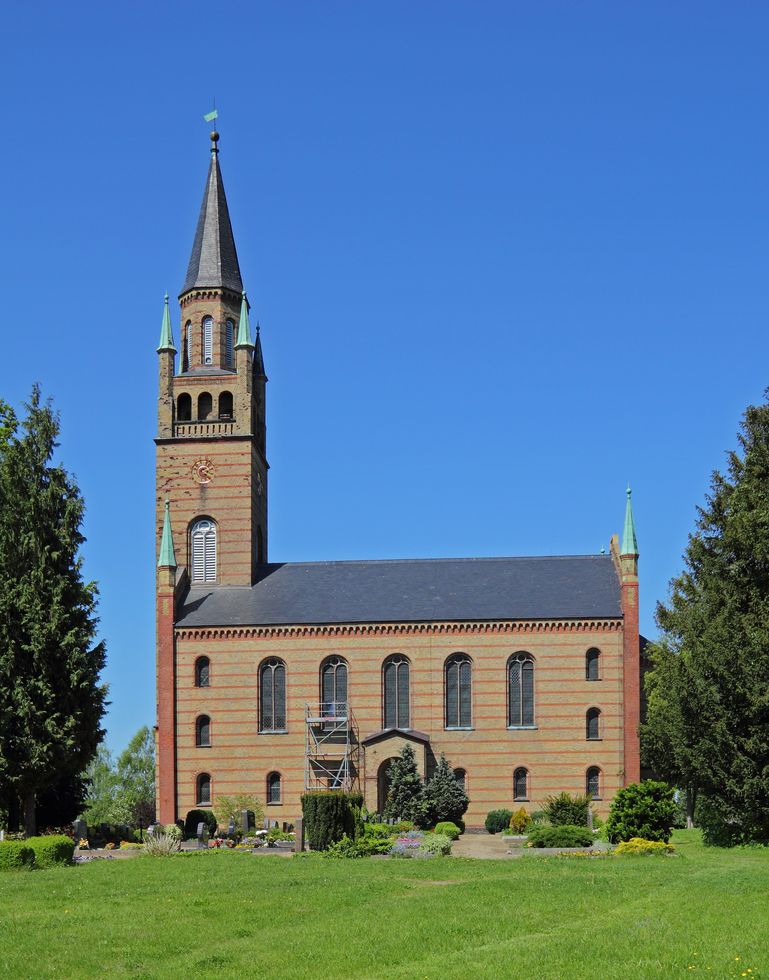 Village church in Langen, Fehrbellin municipality, Ostprignitz-Ruppin district, Brandenburg state, Germany